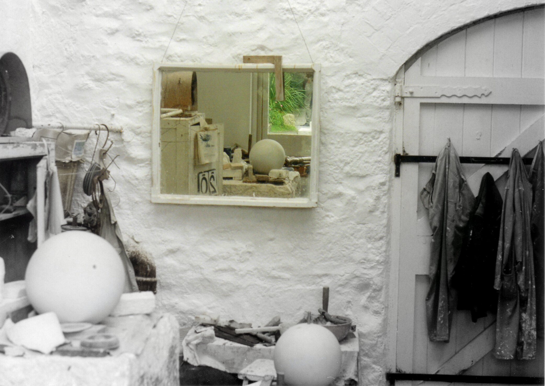 Barbara Hepworth's workshop. Colour photo.